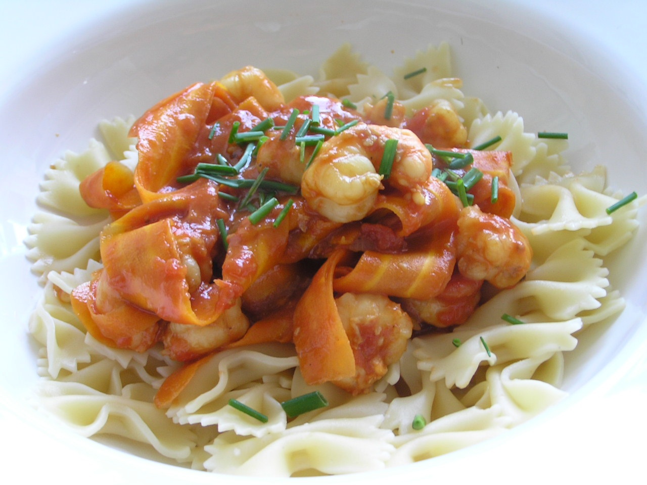 scampi (shrimp) in spicy tomato sauce, served over farfalle.scampi in pikante tomatensaus...